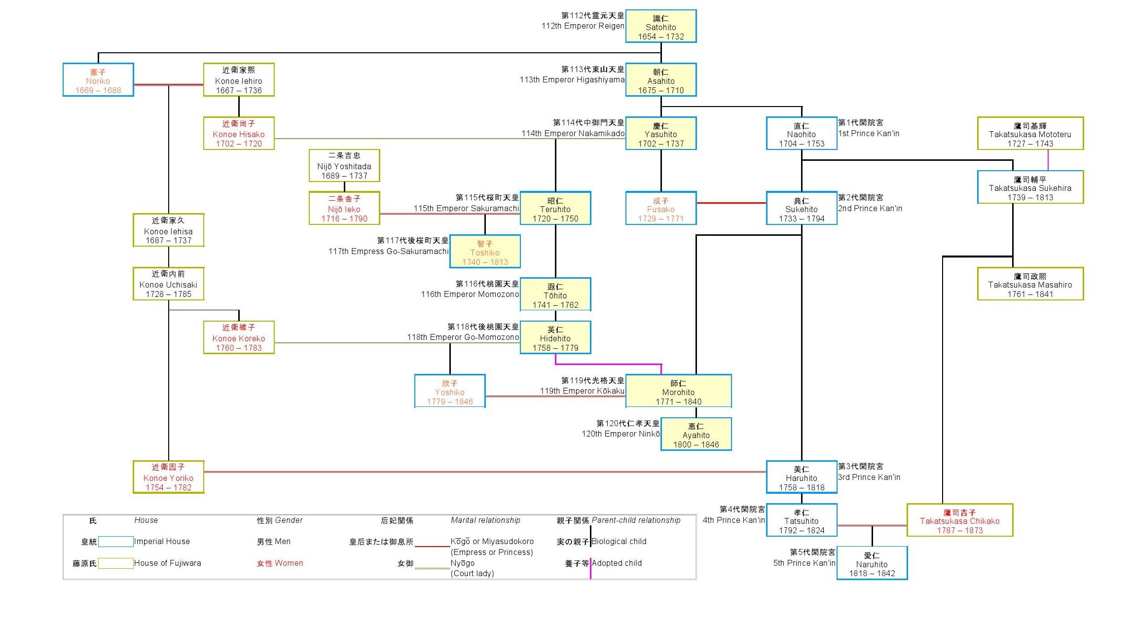 Family tree of the Imperial House of Japan (from Emperor Reigen to Emperor Ninkō, First to Fifth Princes of Kan'in)